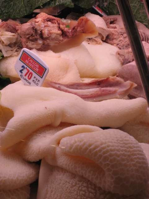 Catalans like tripe and black pudding and ferrets ... are they some lost tribe of Yorkshire then?